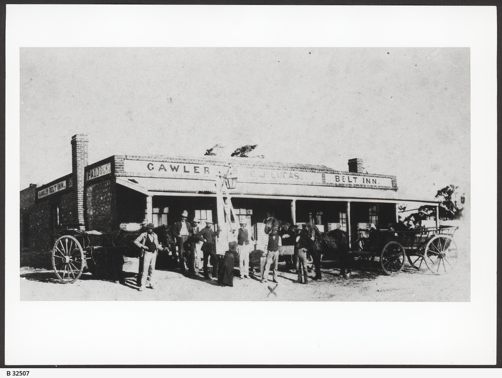 A photograph of the Gawler Belt Inn in 1880. The original is a Photograph; 19.9 cm x 11.3 cm, held by the State Library of South Australia in the Gawler Collection, record number B 32507. The Inn stood roughly where the intersection of Redbanks Road and Gawler Bypass is now.